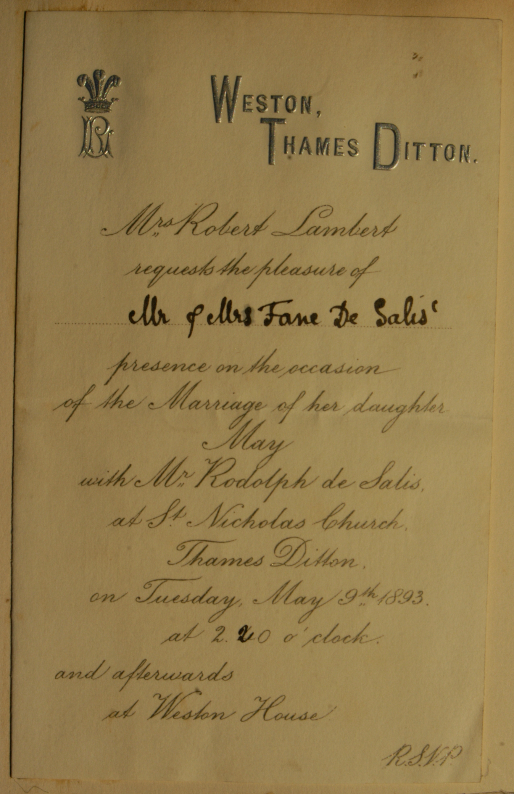 Photo (by me, R. de Salis, Rodolph (talk) 21:35, 23 July 2015 (UTC)) of an invitation to the marriage of Rodolph de Salis & May Lambert, Thames Ditton, May 1893.